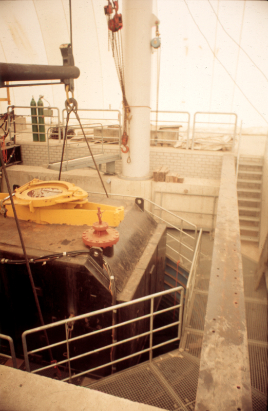 North shaft location of abandoned Beatrix coal mine (1987), Meinweg, Herkenbosch, The Netherlands